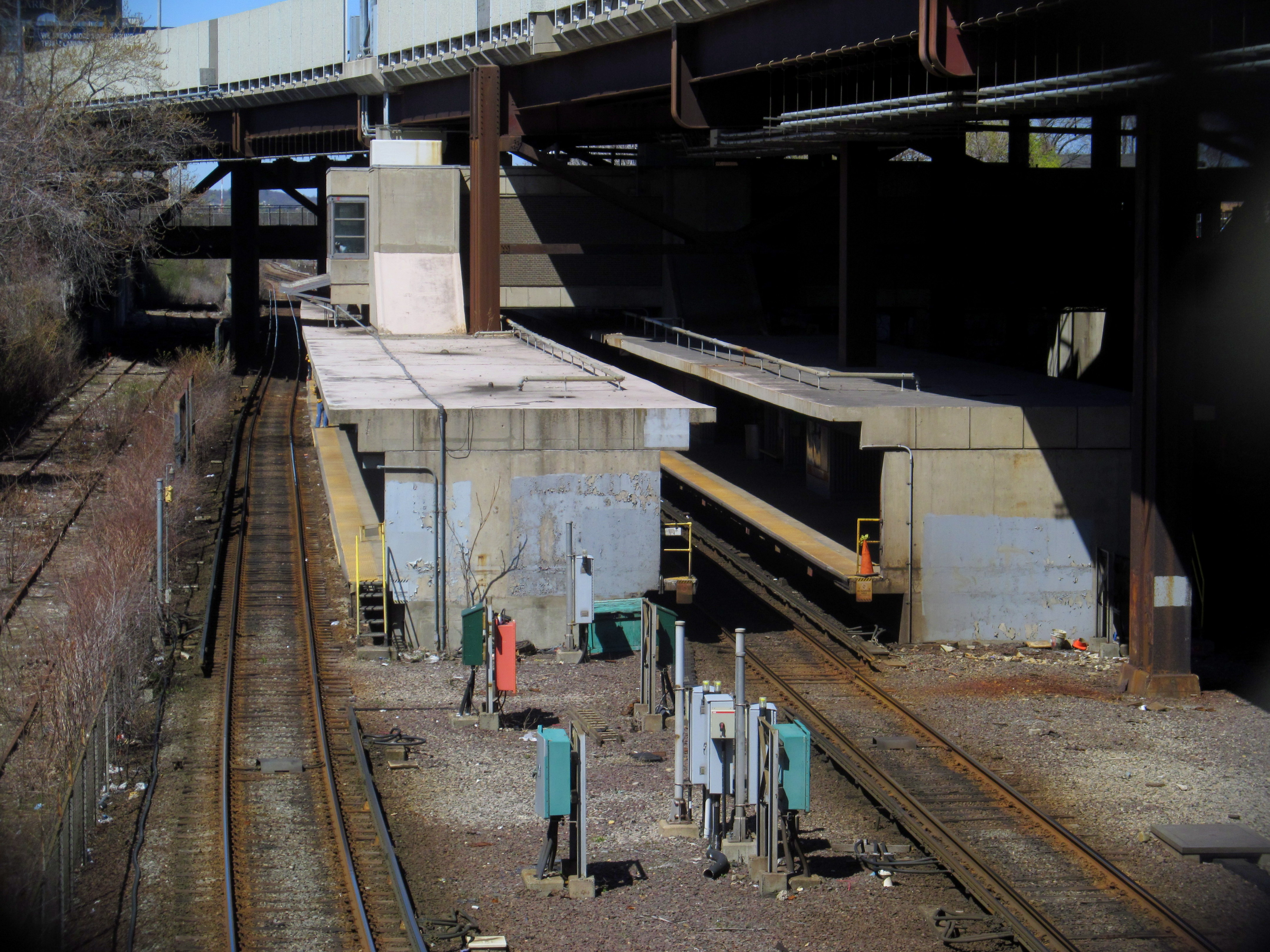 Sullivan Square station viewed from Cambridge Street in April 2017